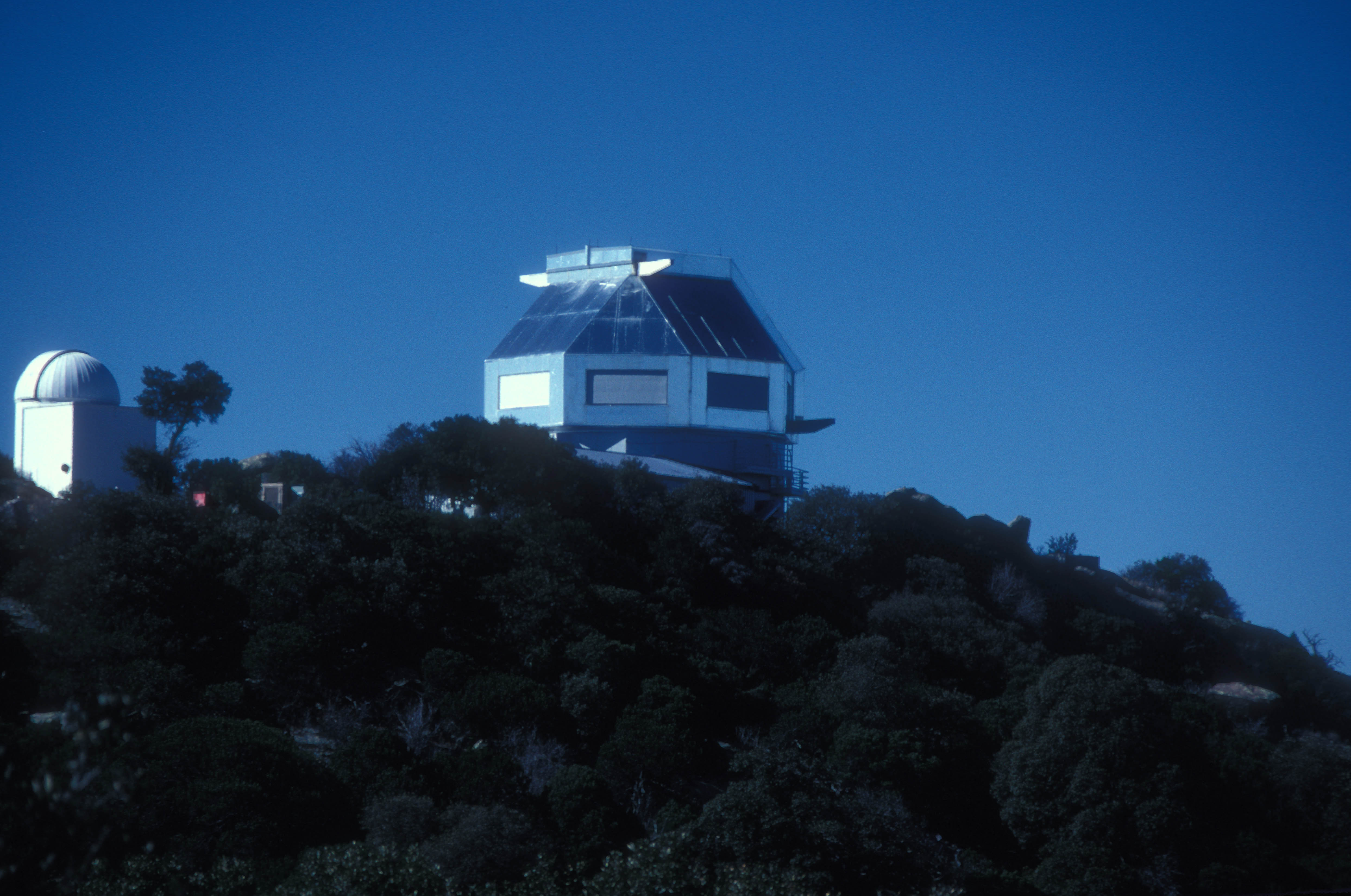 THE TELESCOPE IS DESIGNED BY AVOID THE CHANGES IN TEMPERATURES CAUSED BY WIND CURRENTS WHICH DEGRADE THE IMAGES; NEWEST AND SECOND LARGEST TELESCOPE ON KITT PEAK, Arizona